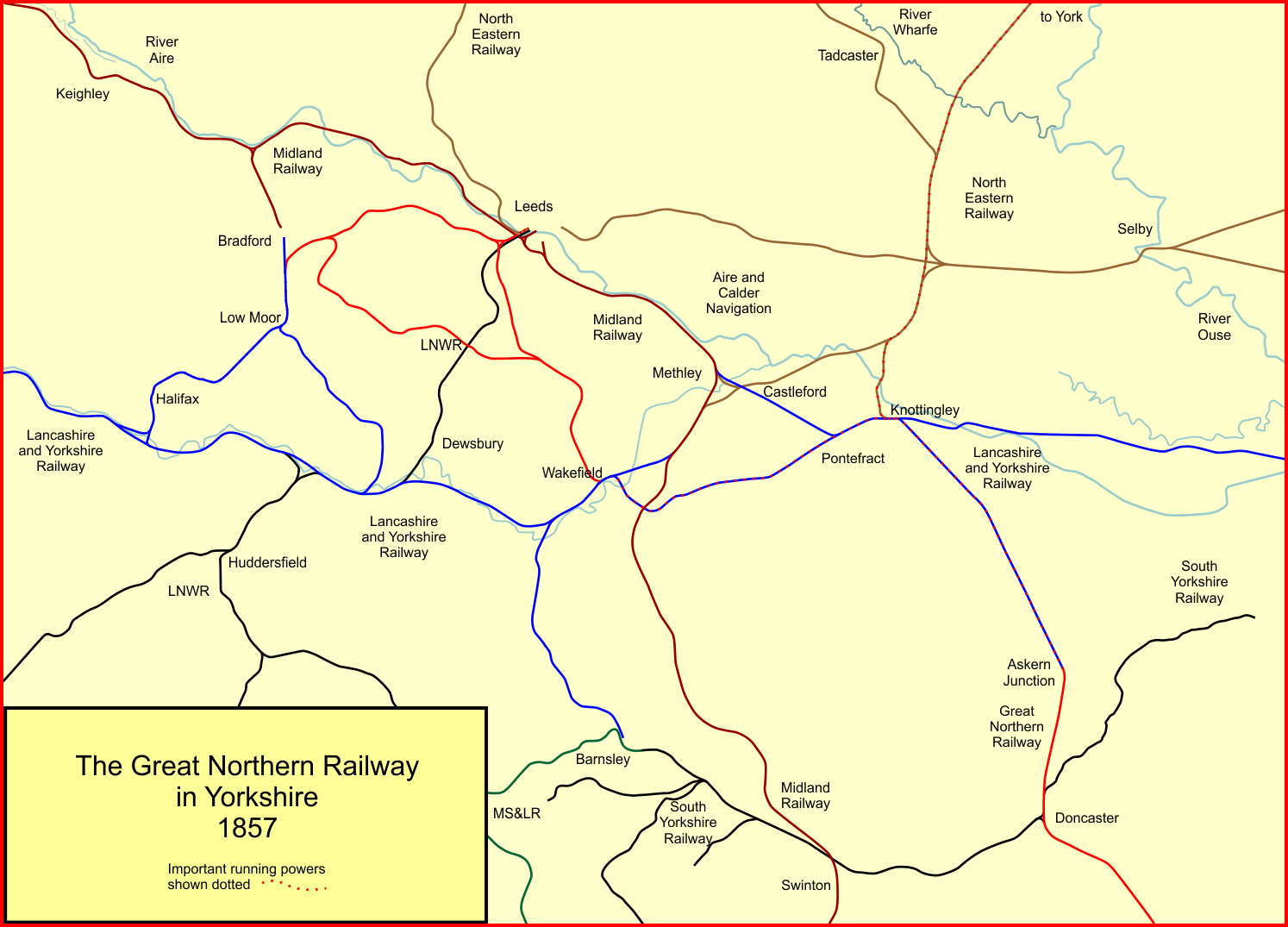 System map of the Great Northern Railway in Yorkshire, England, in 1857